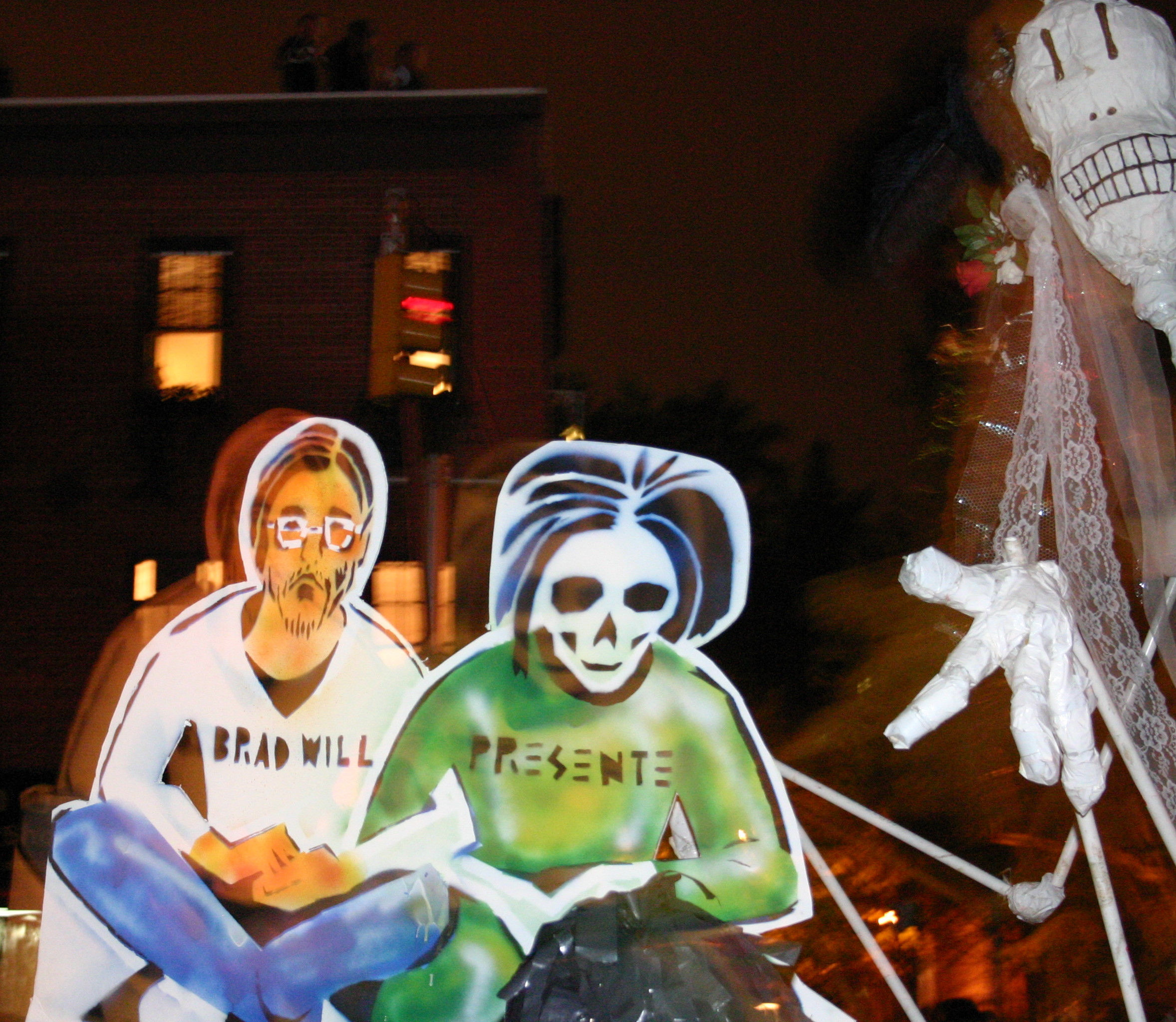 Halloween poster, photo taken in New York, New York on October 31, 2006